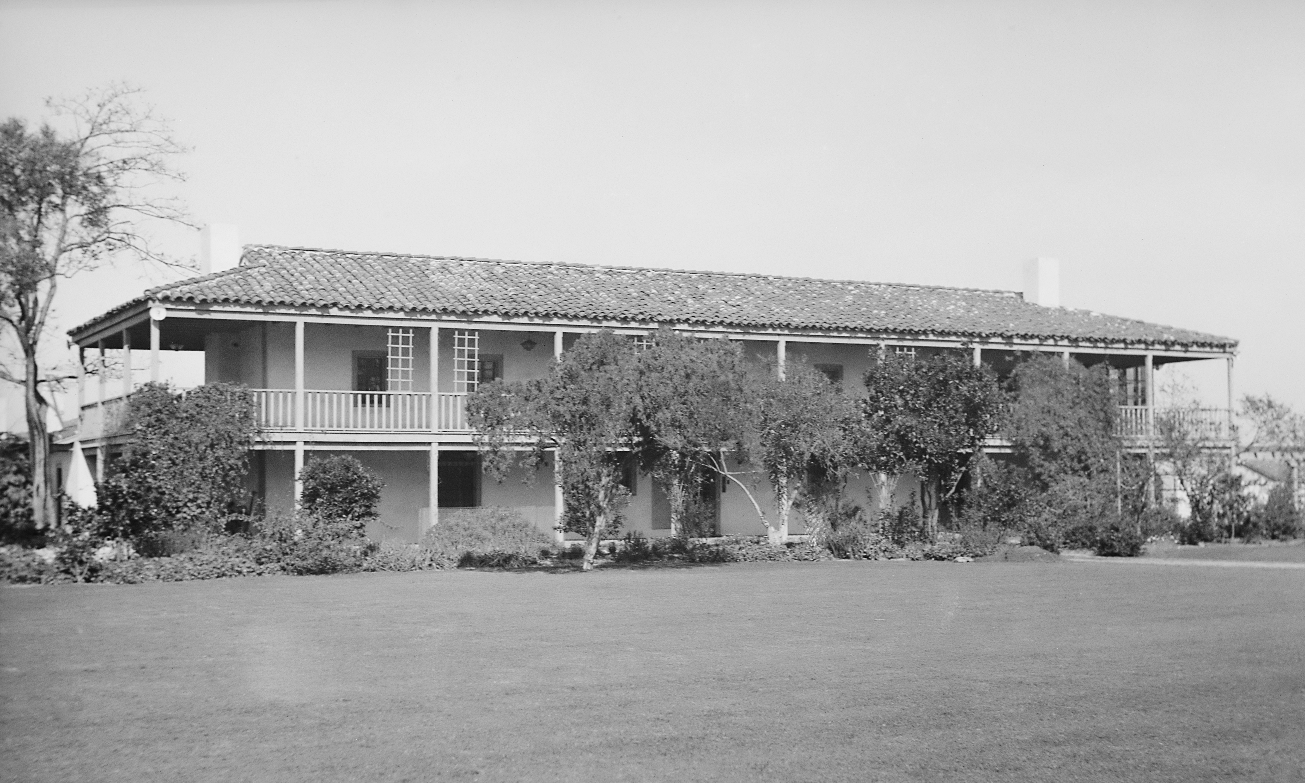 Casa de los Cerritos, historic house museum, gardens, and park. 4600 American Avenue, Long Beach (Los Angeles County, California) (cropped)